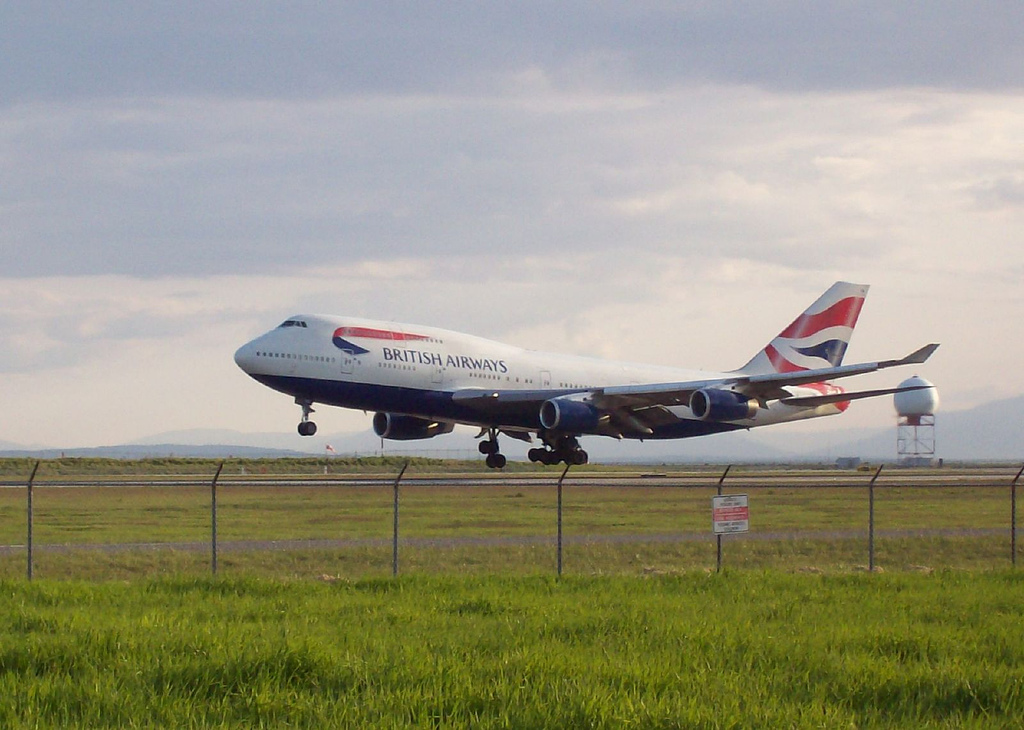 Still airborne - just. This is British Airways flight 85, plane G-CIVN arriving in Vancouver on 17th May 2007